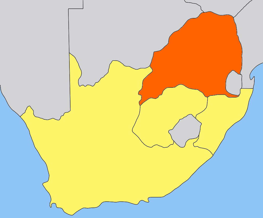 Map of the South African Republic/Transvaal in South Africa. Traced by hand in Inkscape from older version of this image, recoloured in the GIMP.